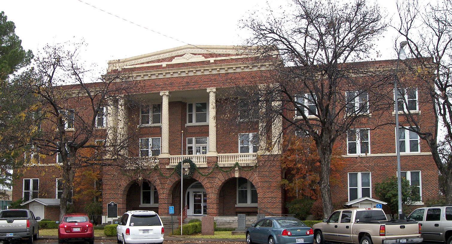 The Brown County Courthouse located in Brownwood, Brown County, Texas, United States. The Neoclassical style building was built in 1917.